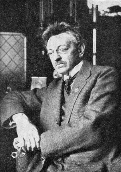 Jaroslav Kvapil (1868-1950) was a Czech poet, playwright, and librettist.